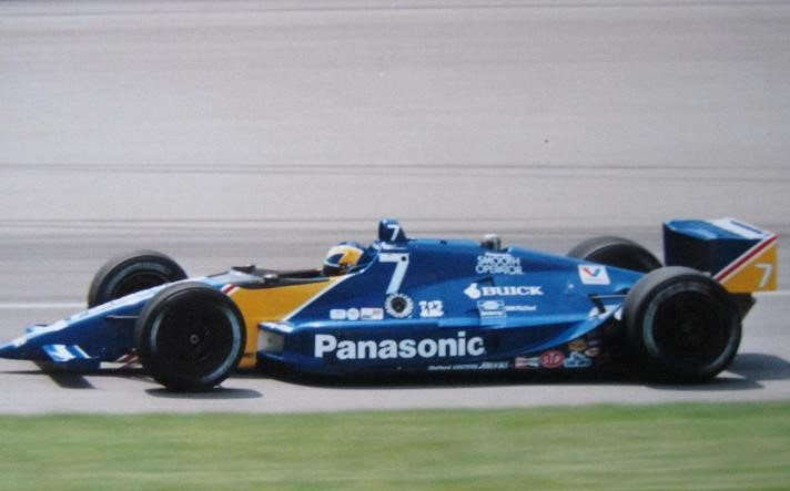 Hiro Matsushita in Toyota Atlantic Championship 1989